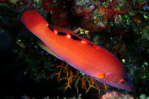 Female of Labrus mixtus photographed near Tuscany coast (Italy)